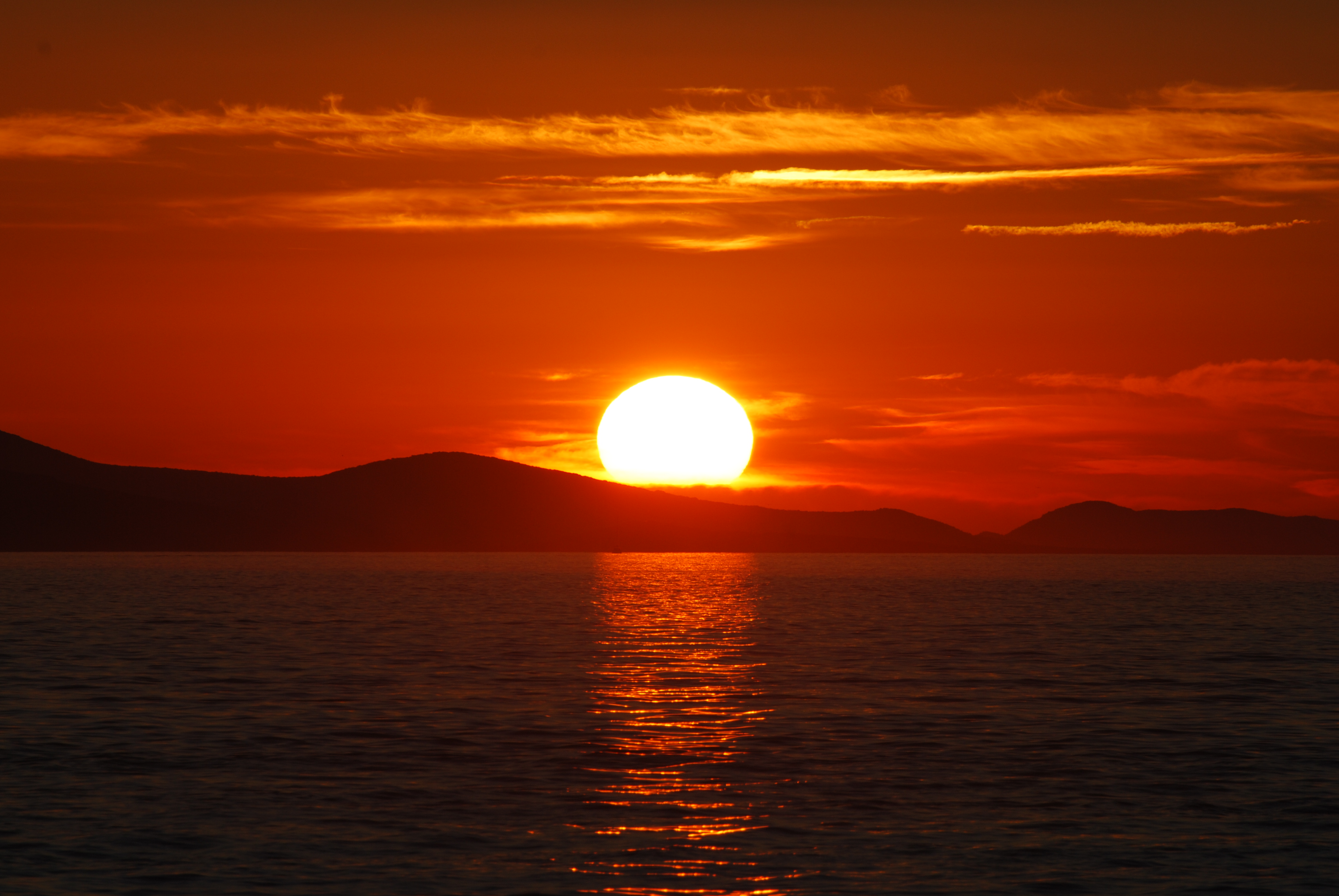 Sunset in Zadar at Zadarski kanal in Croatia / Adriatic Sea.